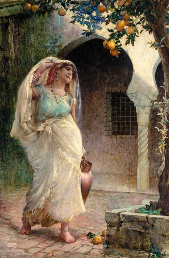 The Water Carrier by Isaac Snowman (1874–1947)